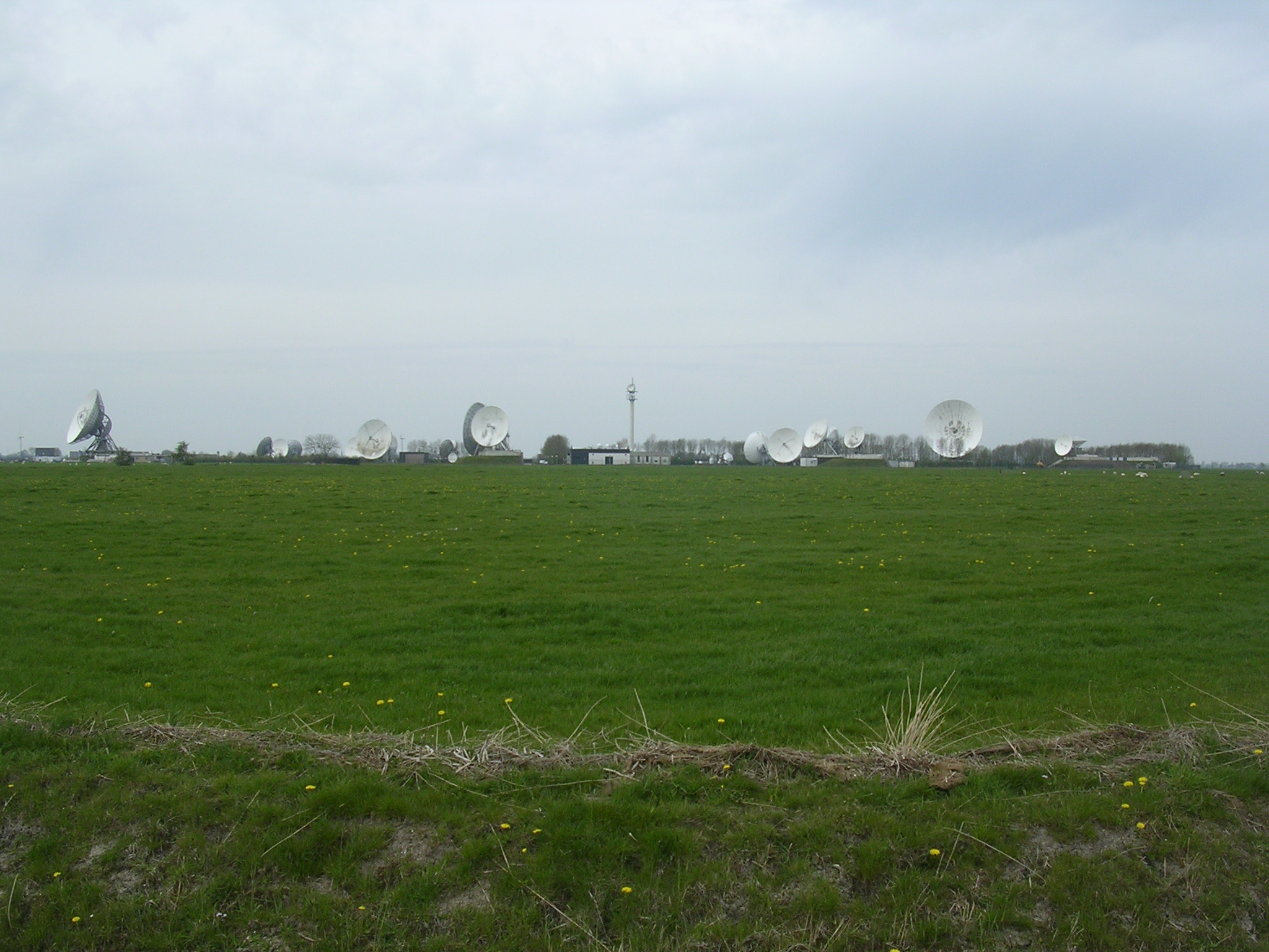 the satellite ground station at Burum